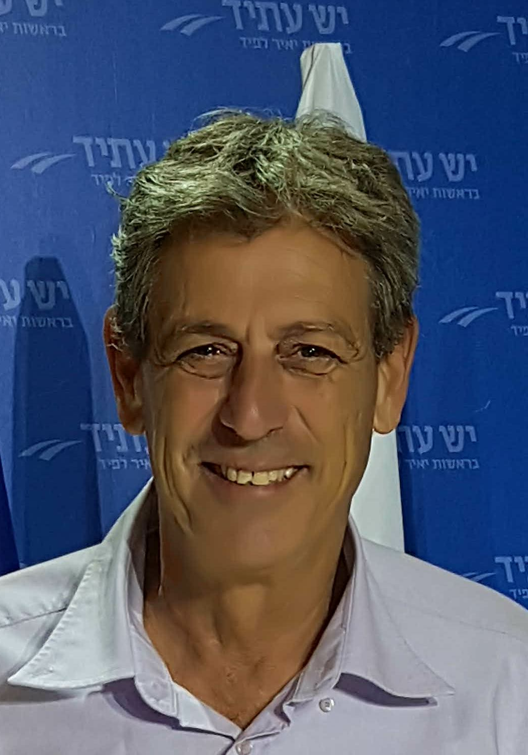 רם בן ברק, כנס יש עתיד בבת ים, 08 בפברואר 2018